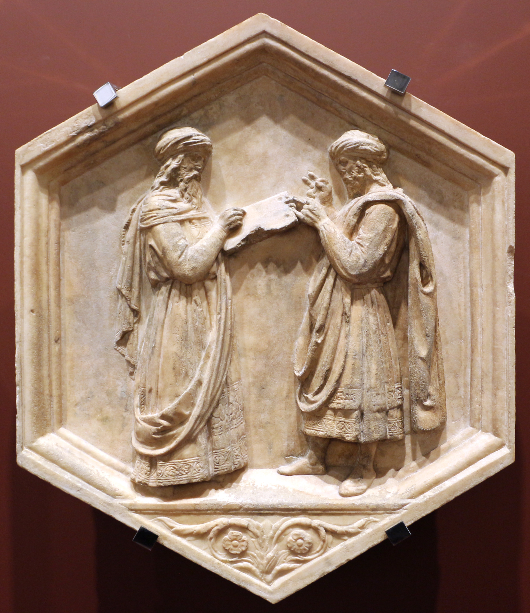 Reliefs of the Giotto's Belltower by Luca della Robbia